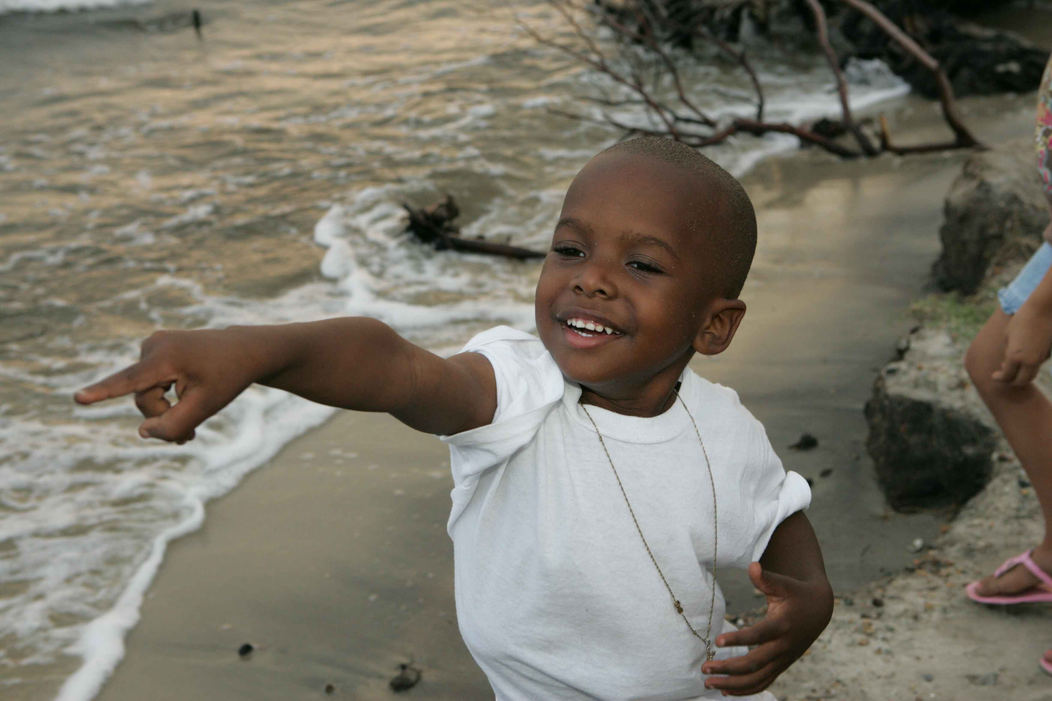 Image title: Cute young afro american boy child Image from Public domain images website